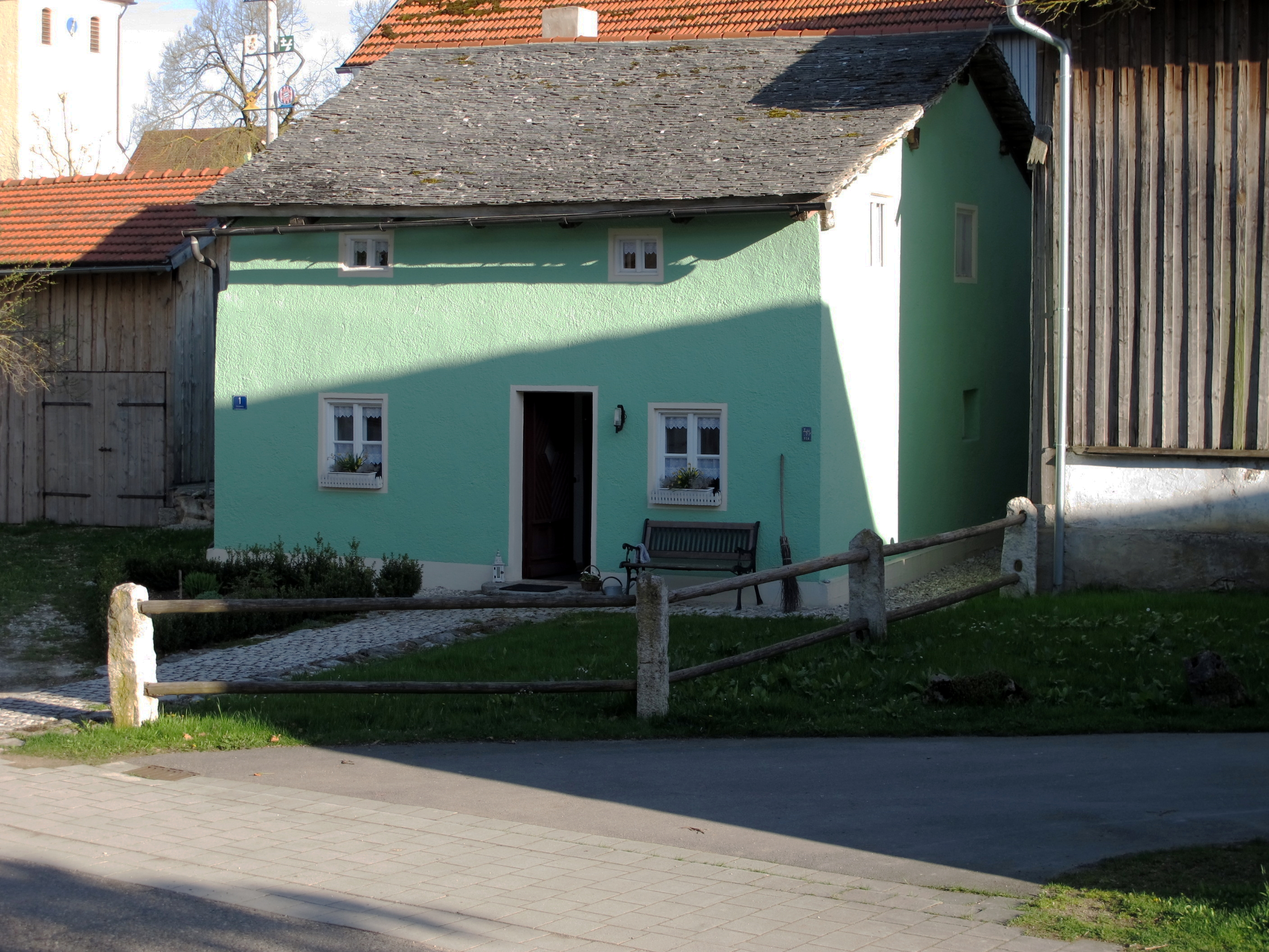 Jurahaus Wachenzell, Bavaria, Germany